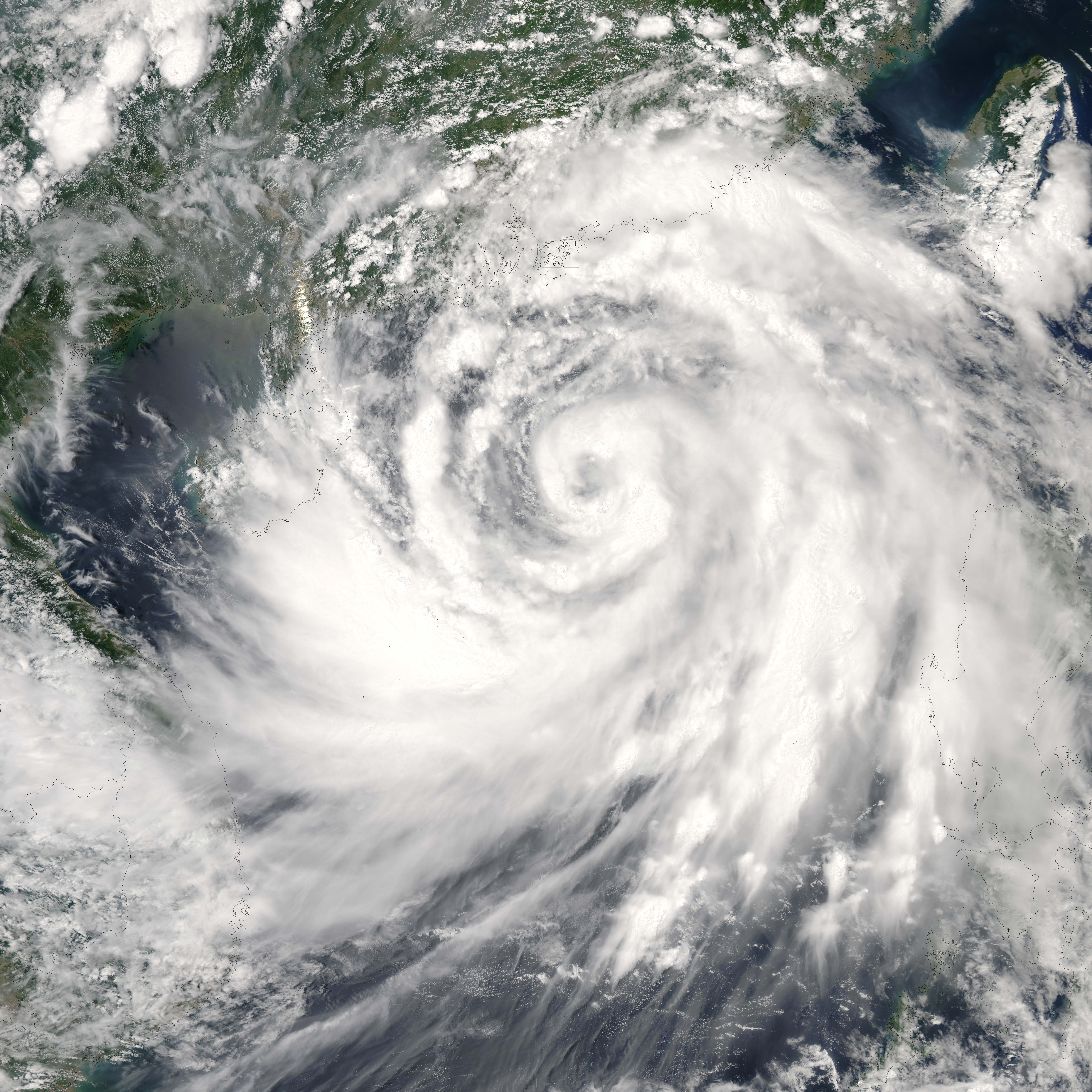 Typhoon Prapiroon formed in the western Pacific on July 31, 2006, off the coast of Luzon, the northernmost of the Philippine Islands. The tropical depression strengthened to storm status in the next day after crossing Luzon, and reached typhoon status by early August 2, as it continued east-northeast across the South China Sea towards the Asian mainland. The storm system was blamed for some six deaths in the Philippines as it crossed the island. As of August 3, it was predicted to make landfall in southern China not far from Hainan Island, packing forecasted winds around 115 kilometers per hour (73 miles per hour). Fishing boats were ordered into port, and rescue teams were being prepared for possible flooding and landslides. This photo-like image was acquired by the Moderate Resolution Imaging Spectroradiometer (MODIS) on the Aqua satellite on August 2, 2006, at 1:50 p.m. local time (05:50 UTC). Prapiroon had a very well-defined spiral shape and active thunderstorm systems (bright, puffy clouds) close to the eyewall. Prapiroon at the time the Aqua satellite passed overhead had a partially opened eye: the center of the storm still had some light cloud cover. Sustained winds in the storm system were estimated to be around 120 kilometers per hour (75 miles per hour) around the time the image was captured, according to the University of Hawaii’s Tropical Storm Information Center. The high-resolution image provided above is provided at the full MODIS spatial resolution (level of detail) of 250 meters per pixel. The MODIS Rapid Response System provides this image at additional resolutions.